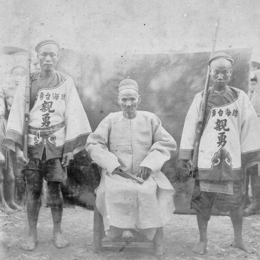 Photo of 陳輝煌, a pioneer in Ilan(Taiwan), with his soldiers beside.